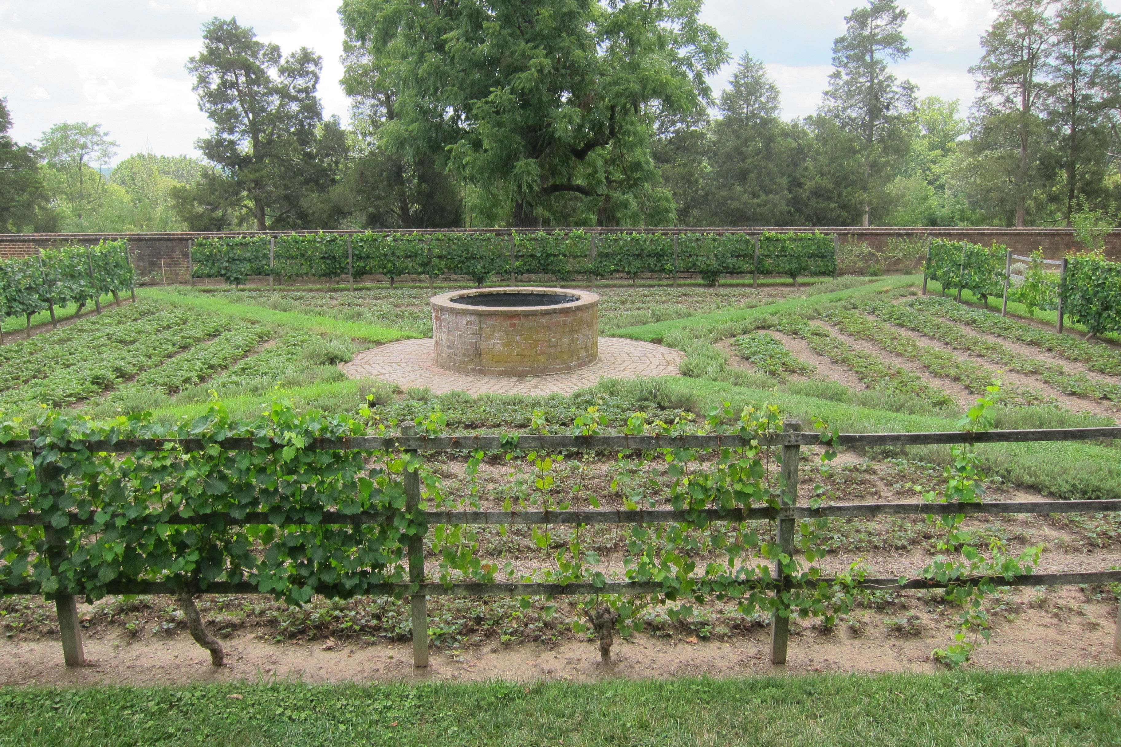 මවුන්ට් වර්නන් නිවස අසල ඇති උද්‍යානය